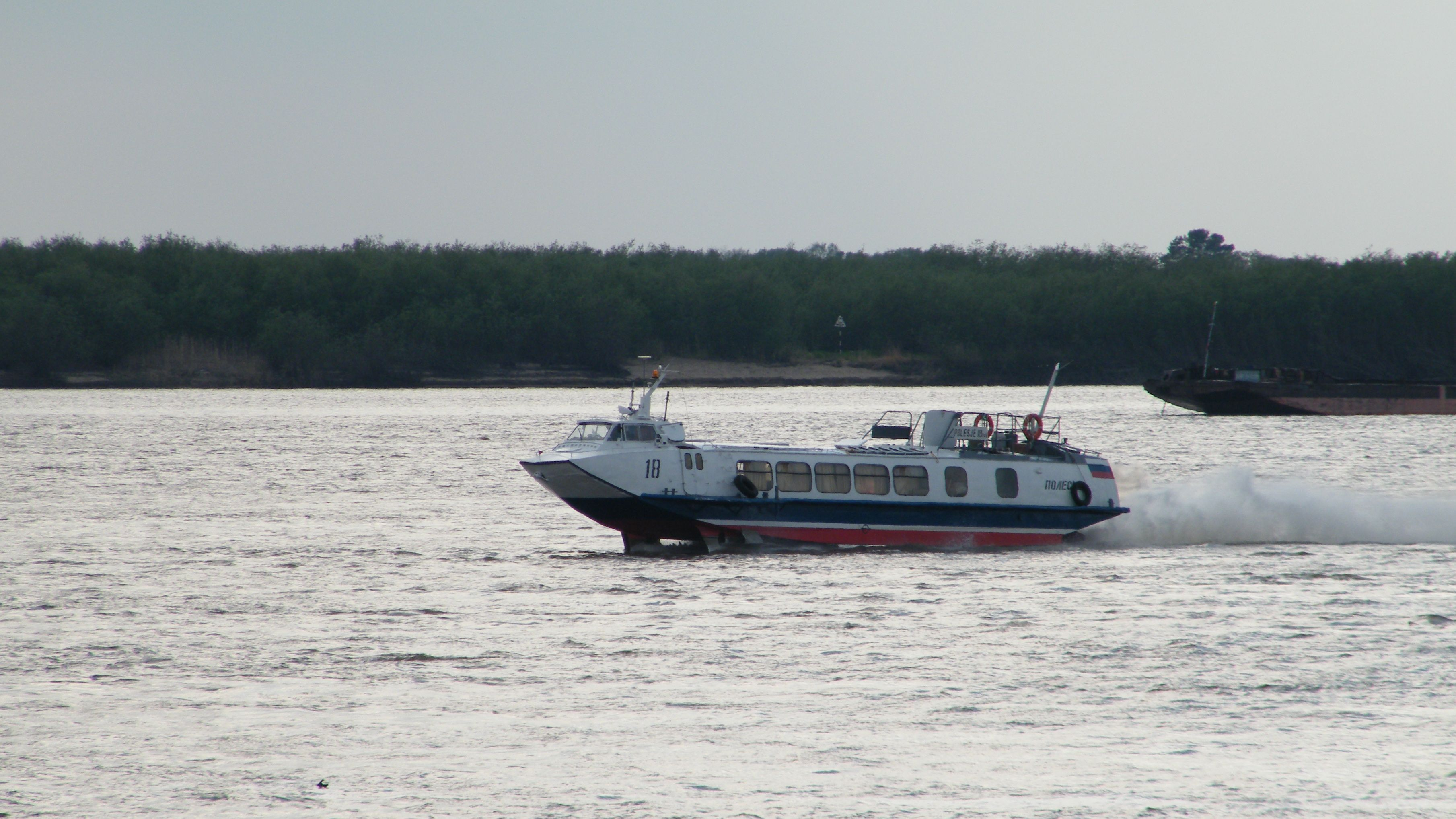 Polesye class hydrofoils